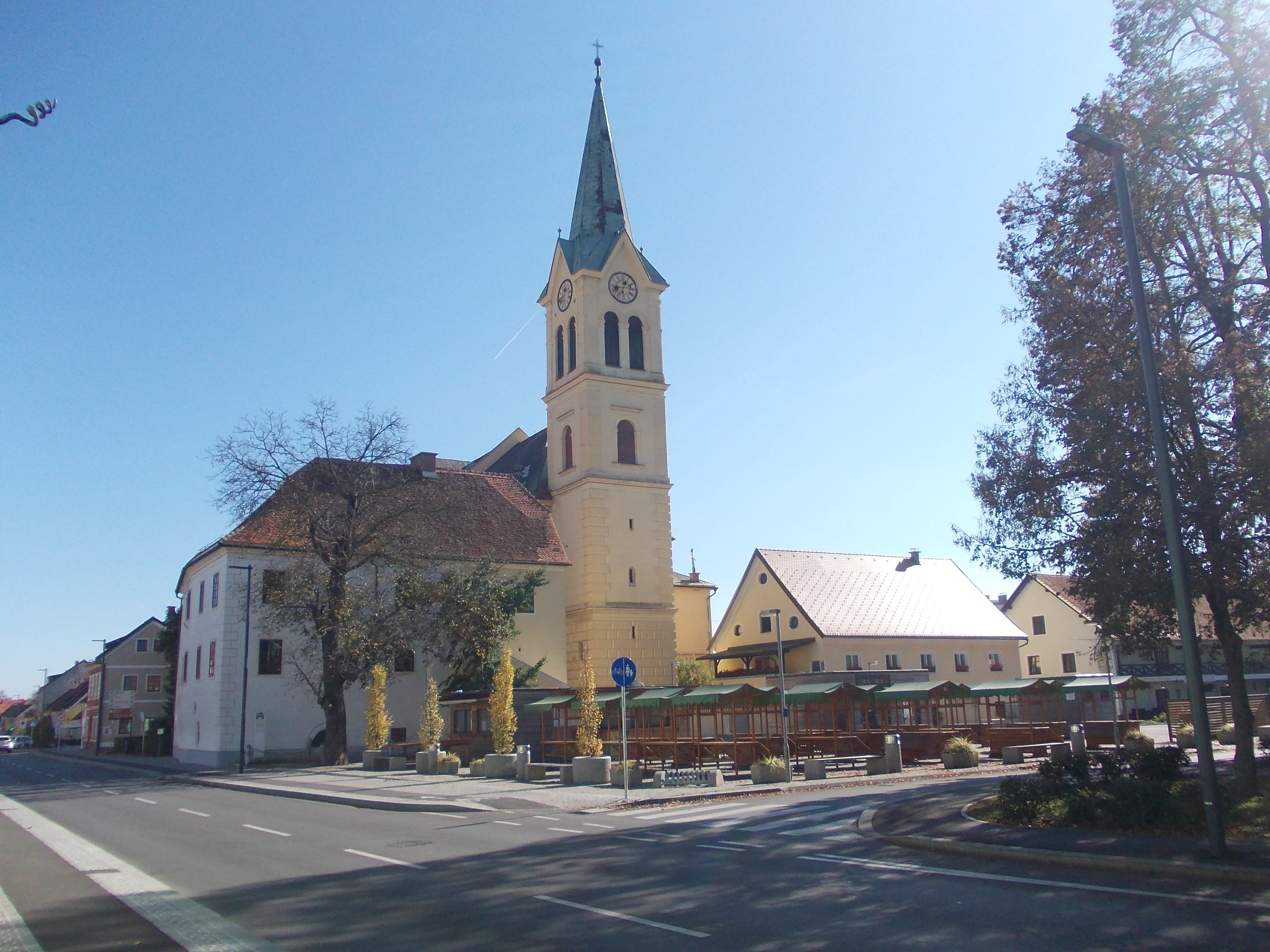 Saint Nicholas Church, Žalec